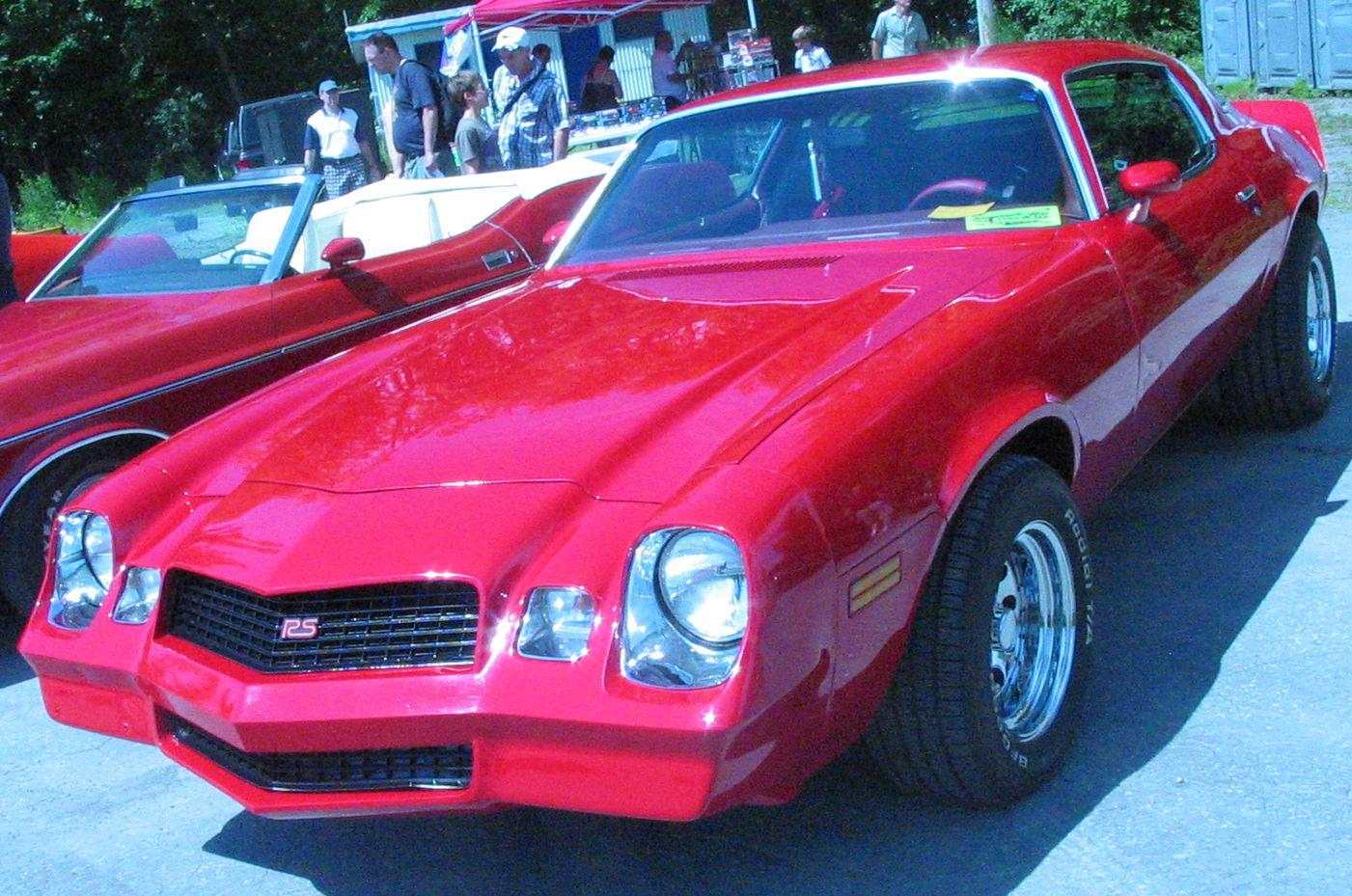 1980 Chevrolet Camaro RS photographed in Laval, Quebec, Canada at the Auto classique Laval.